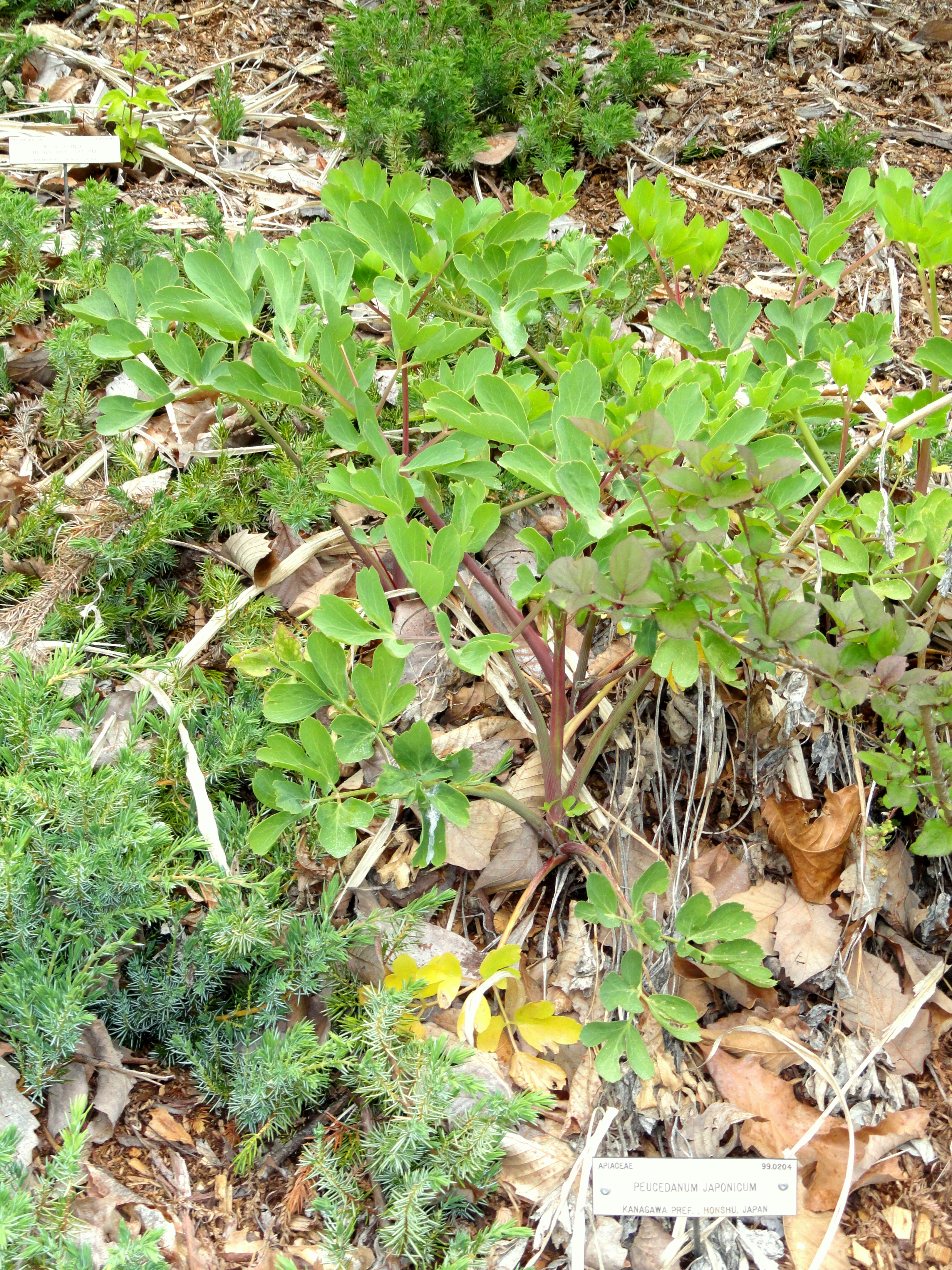 Peucedanum japonicum specimen in the University of California Botanical Garden, Berkeley, California, USA.